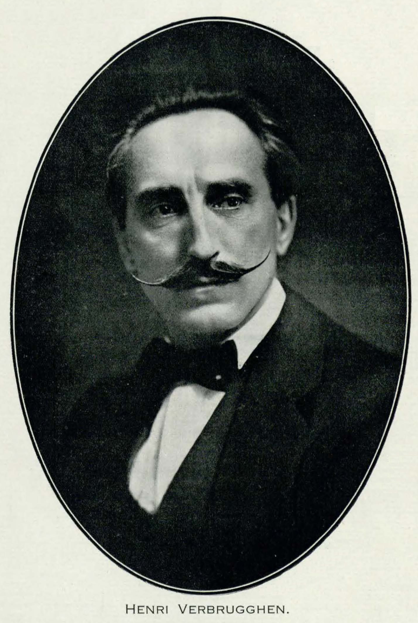 Henri Verbrugghen (1873–1934), Belgian violinist and conductor.